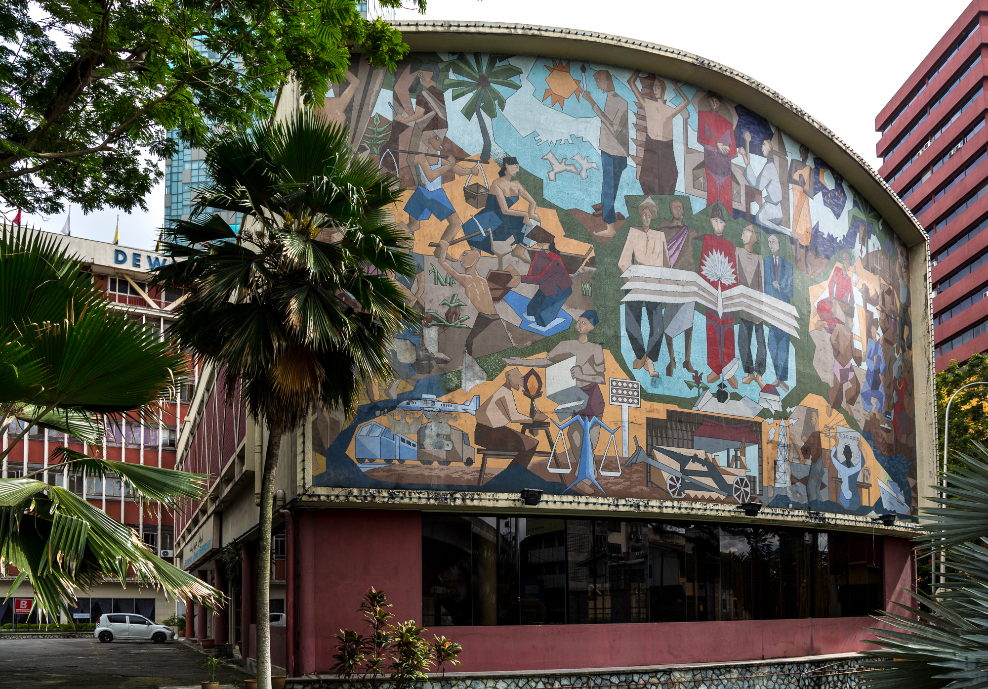 Kuala Lumpur, Malaysia: Headqarters of Dewan Bahasa Dan Pustaka